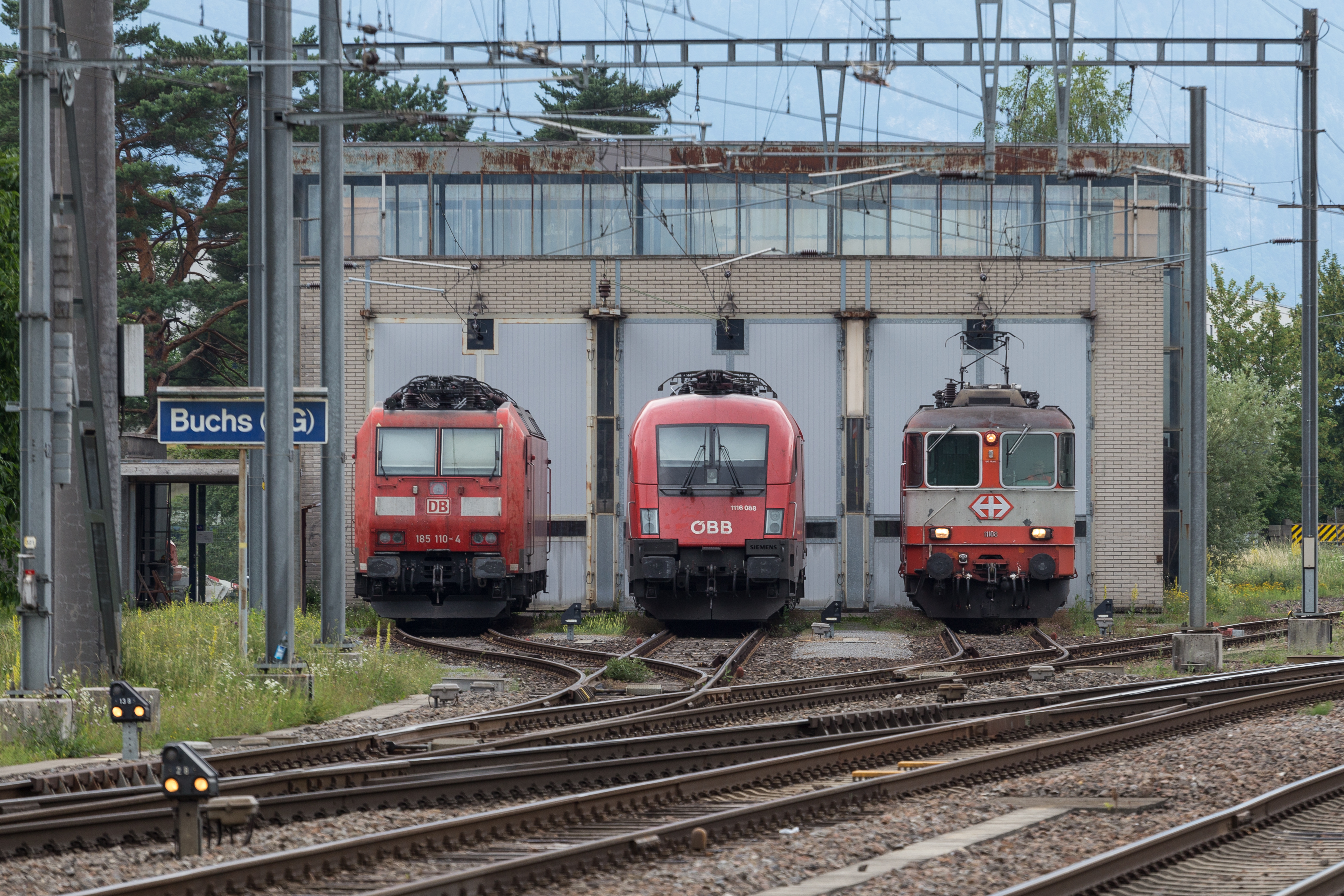 Electric locomotives from Germany, Austria and Switzerland in Buchs SG, Switzerland